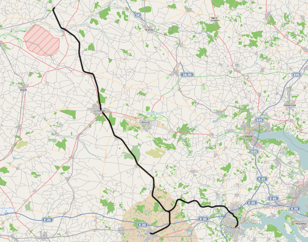 Railway line Kolding - Troldhede